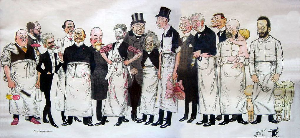 Professors at the Paris Faculty of Medicine (1904) - L to R André Chantemesse (1851-1919) (Experimental Medicine), Georges Pouchet (1833 - 1894) (Histology and Anatomy), Paul Poirier (1853-1907) (Anatomy), Georges Dieulafoy (1839-1911) (Pathology), Georges Debove (1845-1920) Paul Brouardel (1837-1906) (Medicine), Samuel Pozzi (1846-1918) (Gynaecology), Paul Tillaux (1834-1904) (Surgery), Georges Hayem (1841-1933) (Clinical Medicine), Victor Cornil (1837-1908) (Pathology), Paul Berger (1845-1908) (Member of the Academy of Medicine), Felix Guyon (1831-1920) (Urology), Pierre Launois (1856-1914) (Histology), Adolphe Pinard (1844-1934) (Obstetrics), Pierre Budin (1846-1907) (Obstetrics)